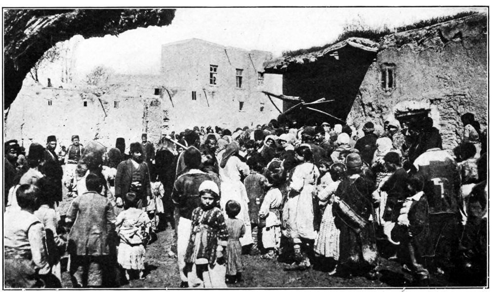 Armenian refugees during the Siege of Van crowding around a public oven during 1915. Original description: "REFUGEES AT VAN CROWDING AROUND A PUBLIC OVEN, HOPING TO GET BREAD. These people were torn from their homes almost without warning, and started toward the desert. Thousands of children and women as well as men died on these forced journeys, not only from hunger and exposure, but also from the inhuman cruelty of their guards"